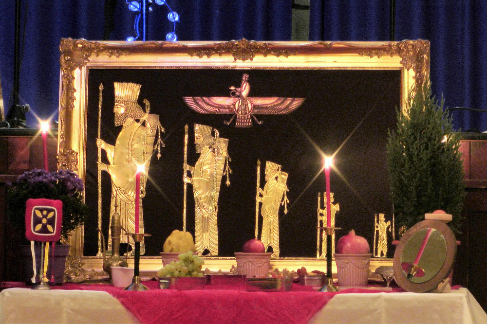 MEHREGAN TABLE, at Mehregan (Persian Festival of Autumn) in Amersfoort, The Netherlands, Oct. 2011. Table Setting: Jaleh Daftarian - Photo by Persian Dutch Network